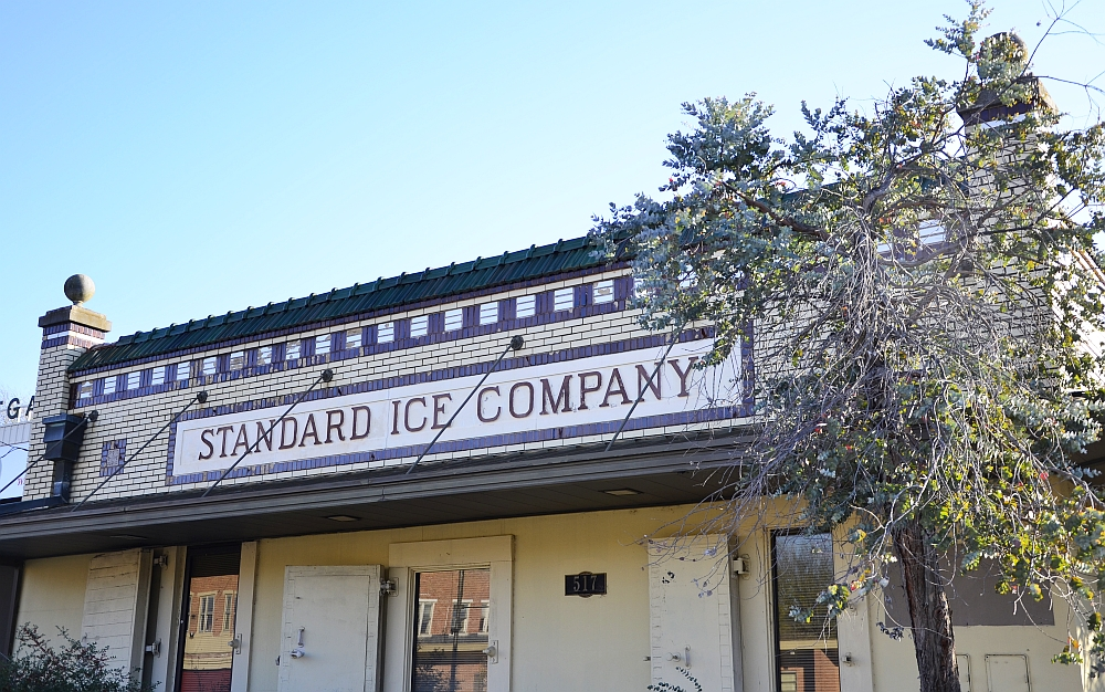 Standard Ice Company Building in Stuttgart, Arkansas. Listed on National Register of Historic Places.